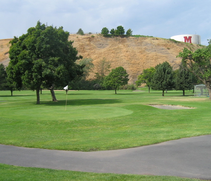 Golf course in Milton-Freewater, Oregon.